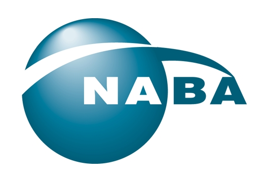 Logo of the North American Broadcasters Association